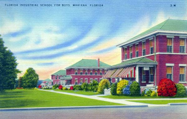 Postcard image of the Florida Industrial School for Boys in Marianna, FL